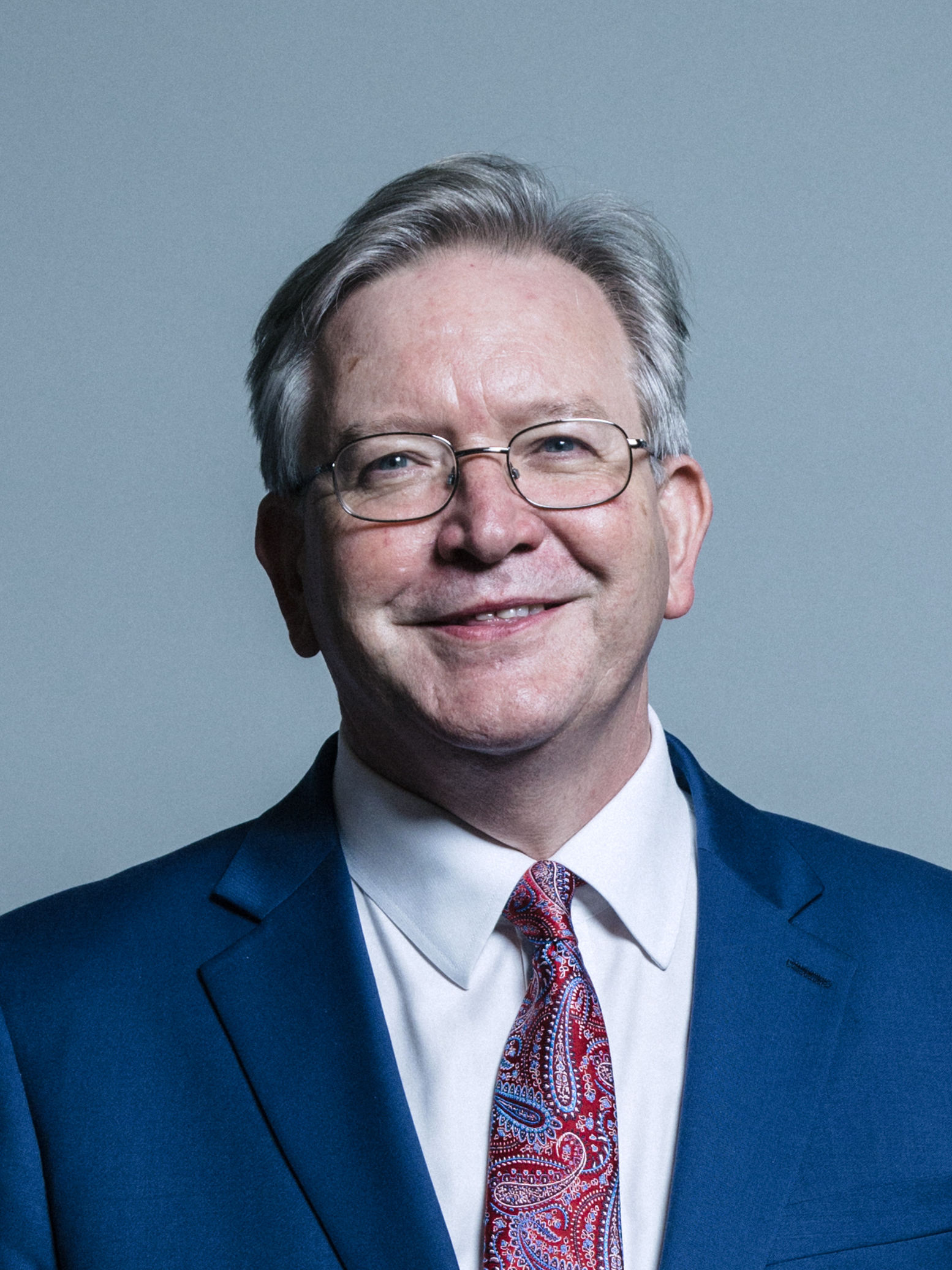 Official Parliamentary photograph of Peter Dowd MP For confirmation of licence